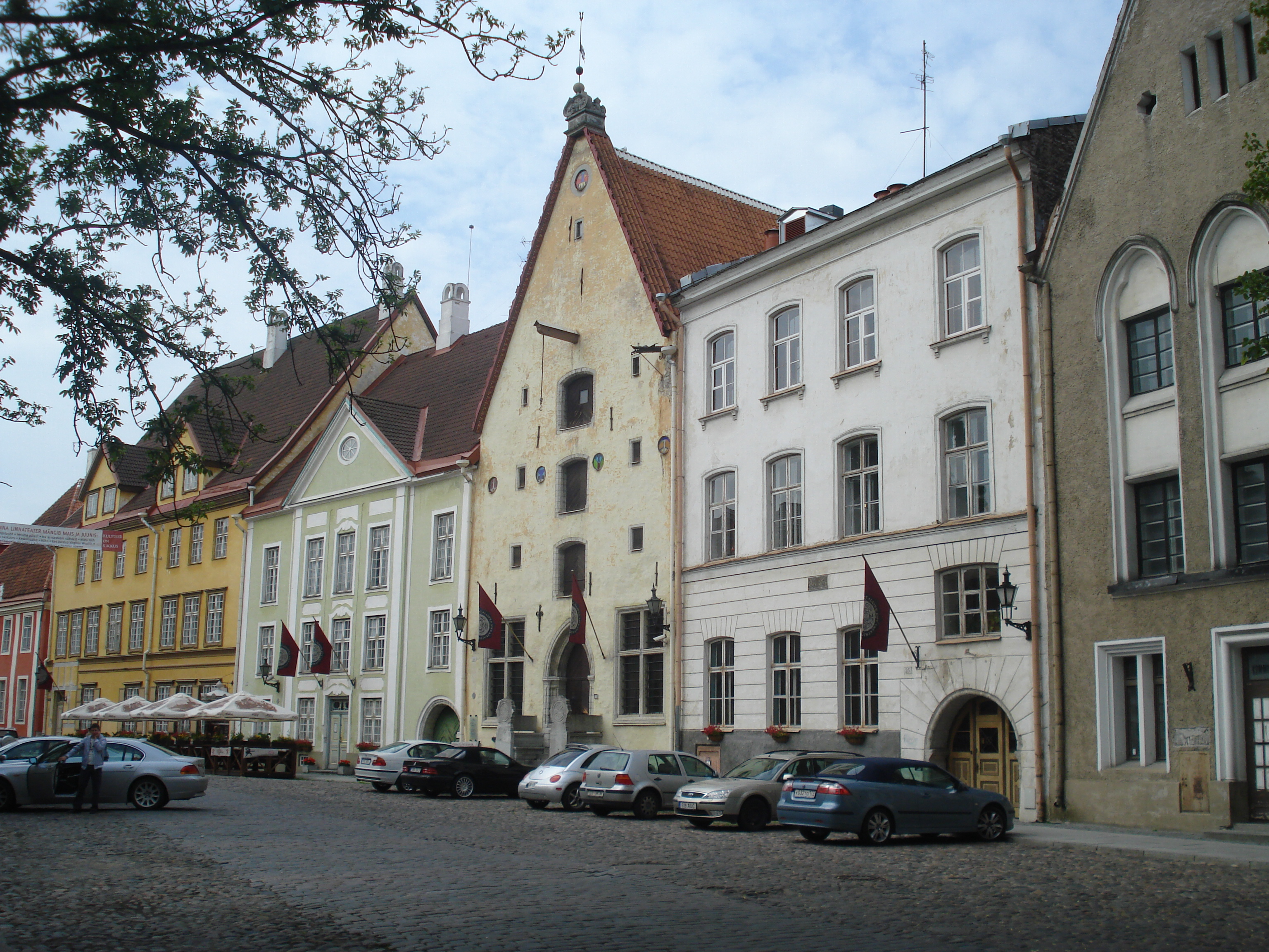 Tallinn City Theater buildings in Tallinn at Lai 19, 21, 23 and 25